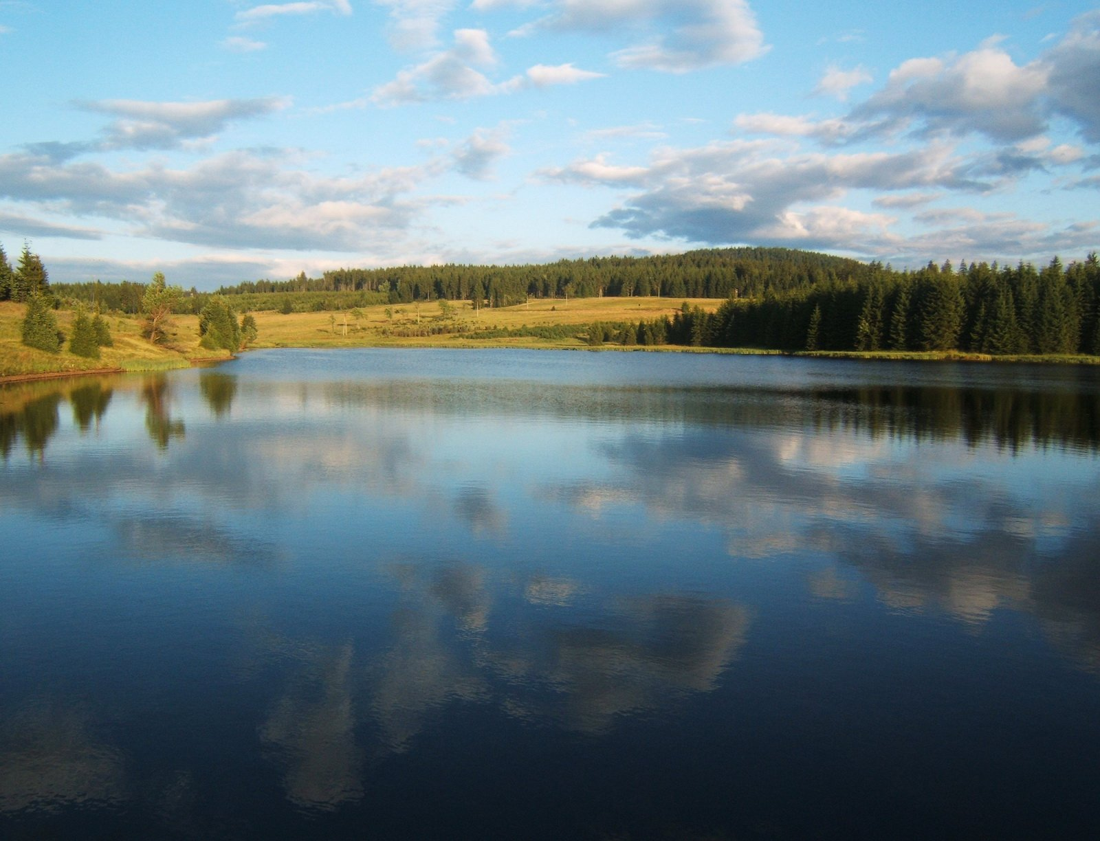 Water reservoir near Myslivny in the Ore Mountains, Czech Republic